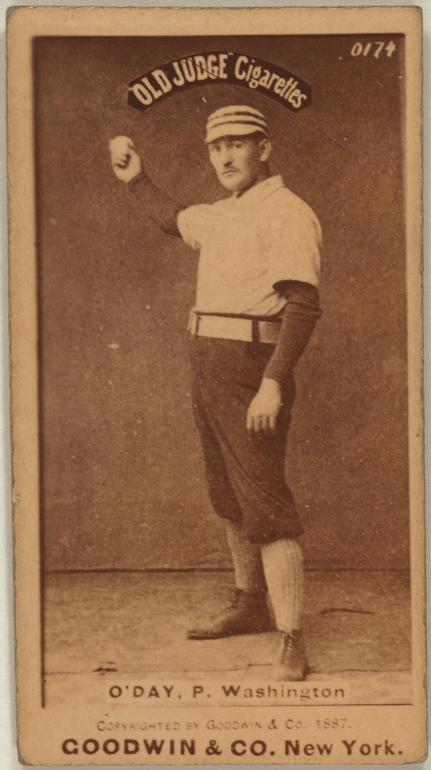 Baseball card of Hank O'Day.